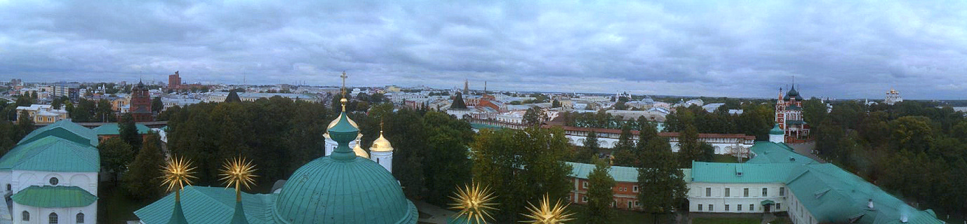 A panoramic view of Yaroslavl from the top of the Spasso-Preobrazhensky Monastery's belfry. Yaroslavl, Russia